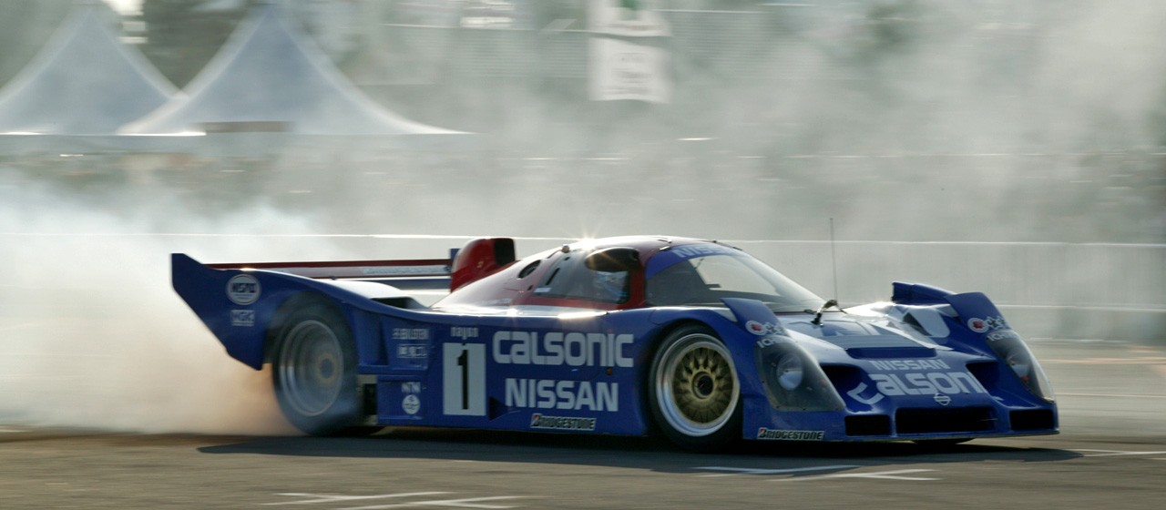 Nissan R91CP in exhibition